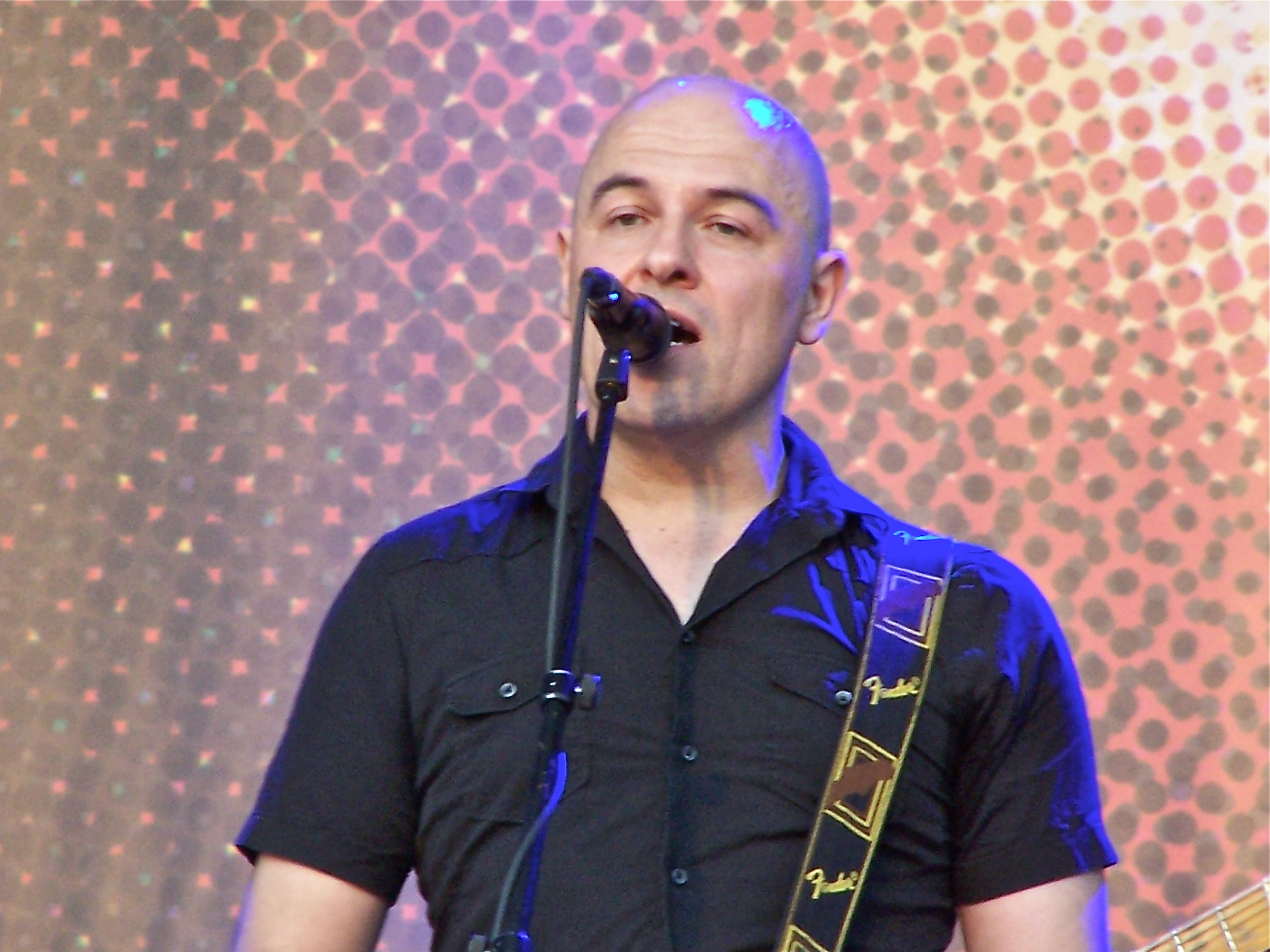 French singer Dominique A in july 2012 at Festival Fnac Live Paris